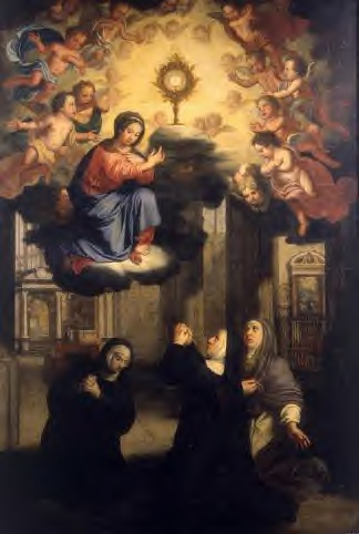 Englebert Fisen, Sainte Julienne du Mont-Cornillon (Juliana of Liège) and the institution of the feast of the Holy Sacrament, 1690 (Church of St-Martin, Liège)